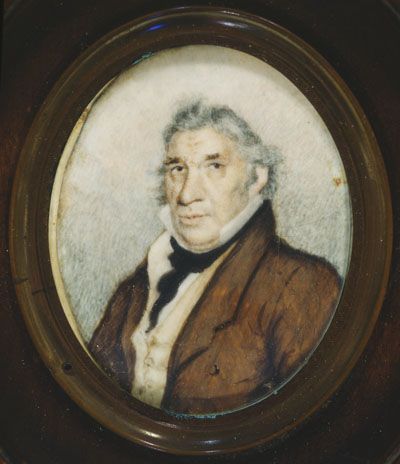 A miniature portrait of American Revolutionary War hero Peter Francisco.